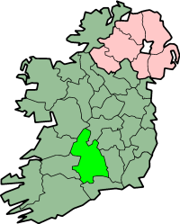 map of County Tipperary, Ireland 08:09, 5 February 2004 Morwen 200x249 (30683 bytes) (map)